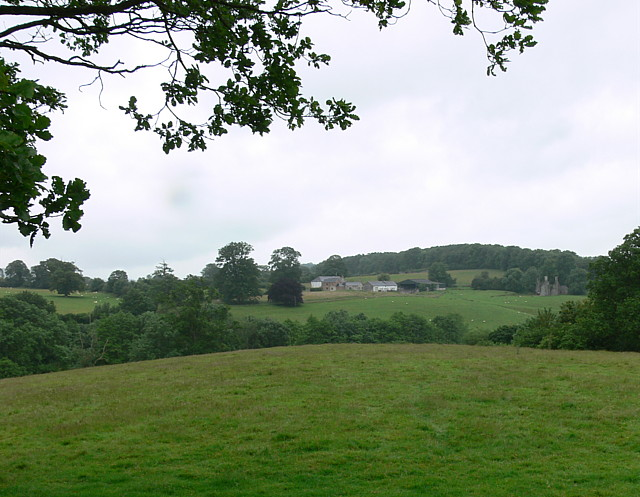 Fields In Front Of Lwynywormwood Afon Ydw runs in the valley in the foreground . Lwynywormwood Farm .